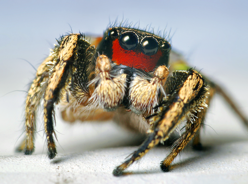 An adult male Habronattus coecatus jumping spider.